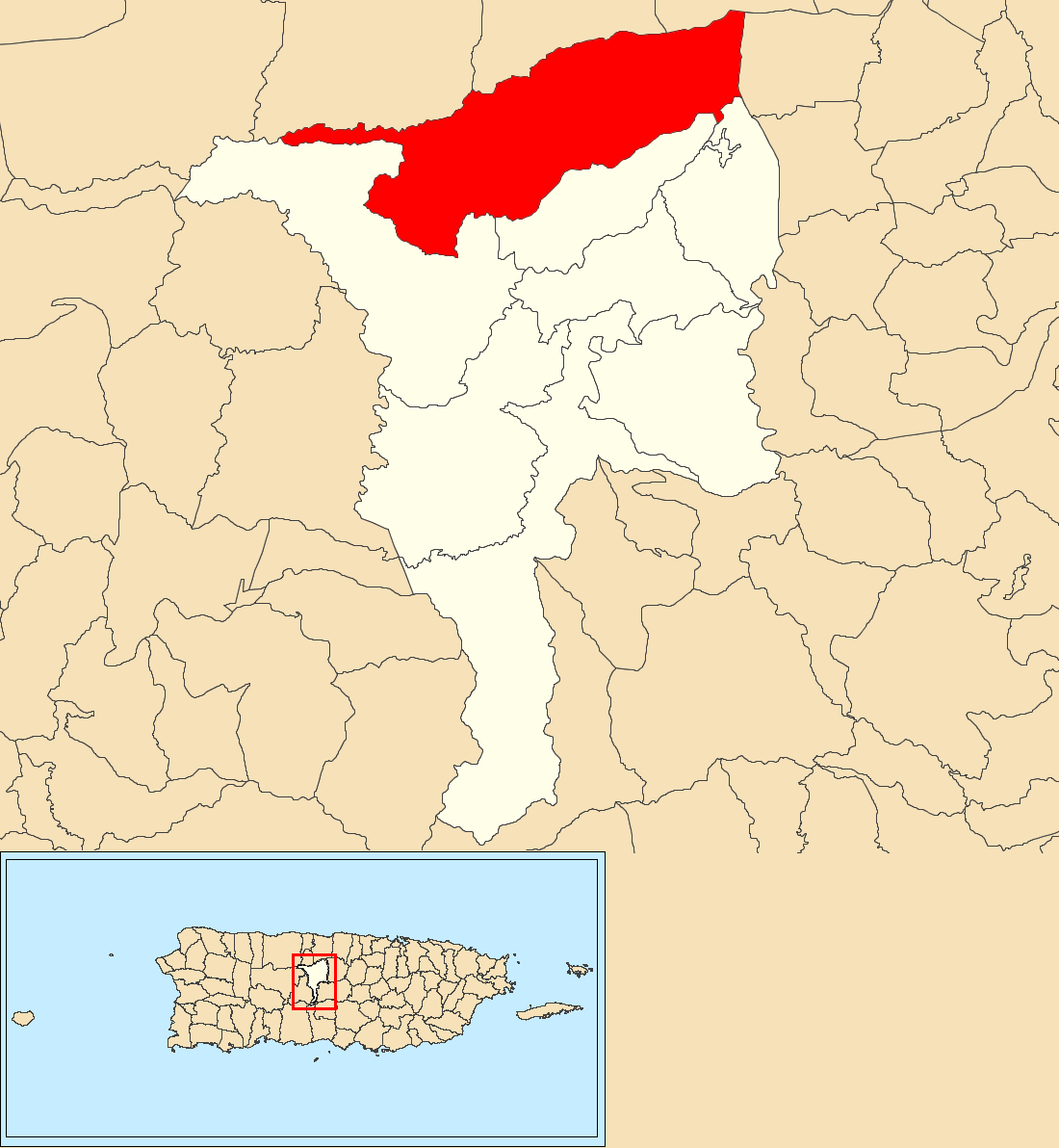 Hato Viejo, Ciales, Puerto Rico locator map